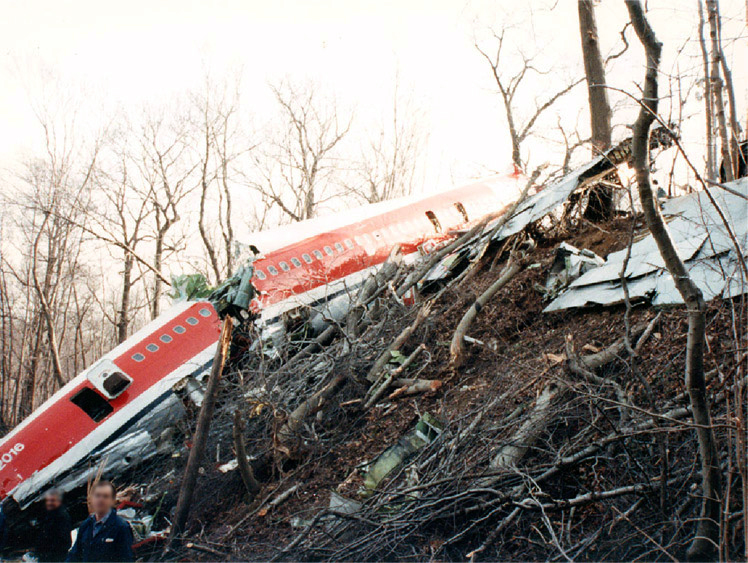 Picture of the wreckage of Avianca Flight 52 in Cove Neck, New York.